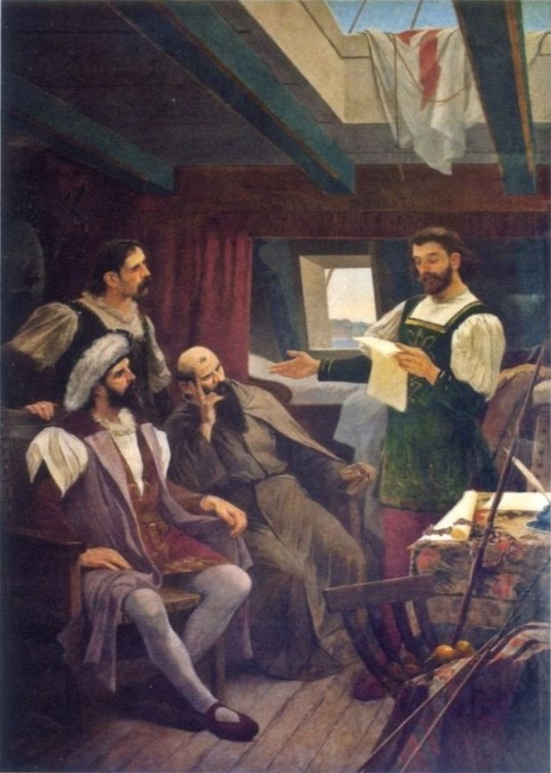 Vaz de Caminha reads to Commander Cabral, Friar Henrique and Master João the letter that will be sent to King Dom Manuel I.